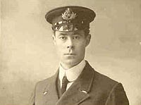 Titanic‘s Fifth Officer Harold Lowe.